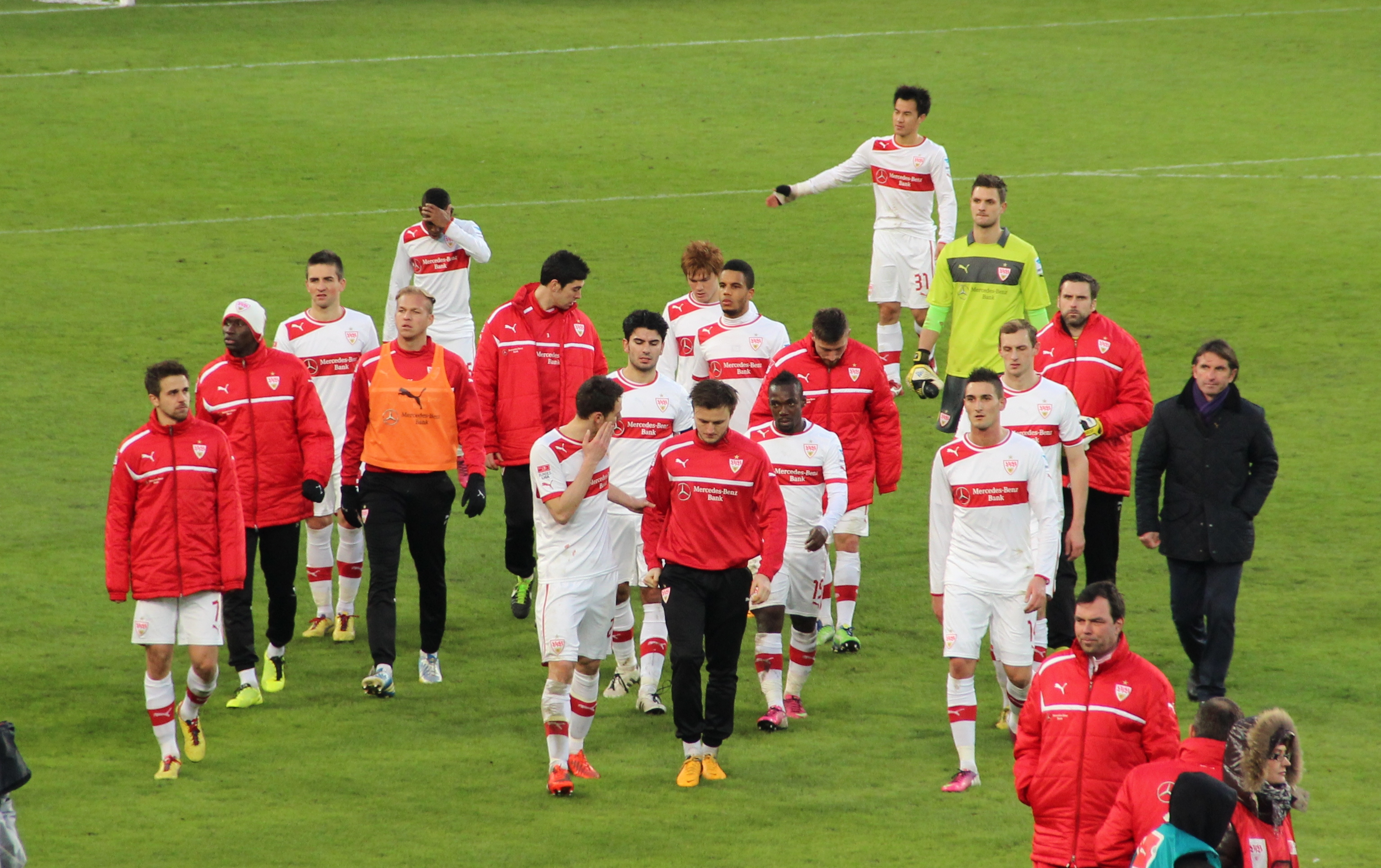 VfB Team after Bundesliga match of VfB Stuttgart against Werder Bremen on 9 February 2013